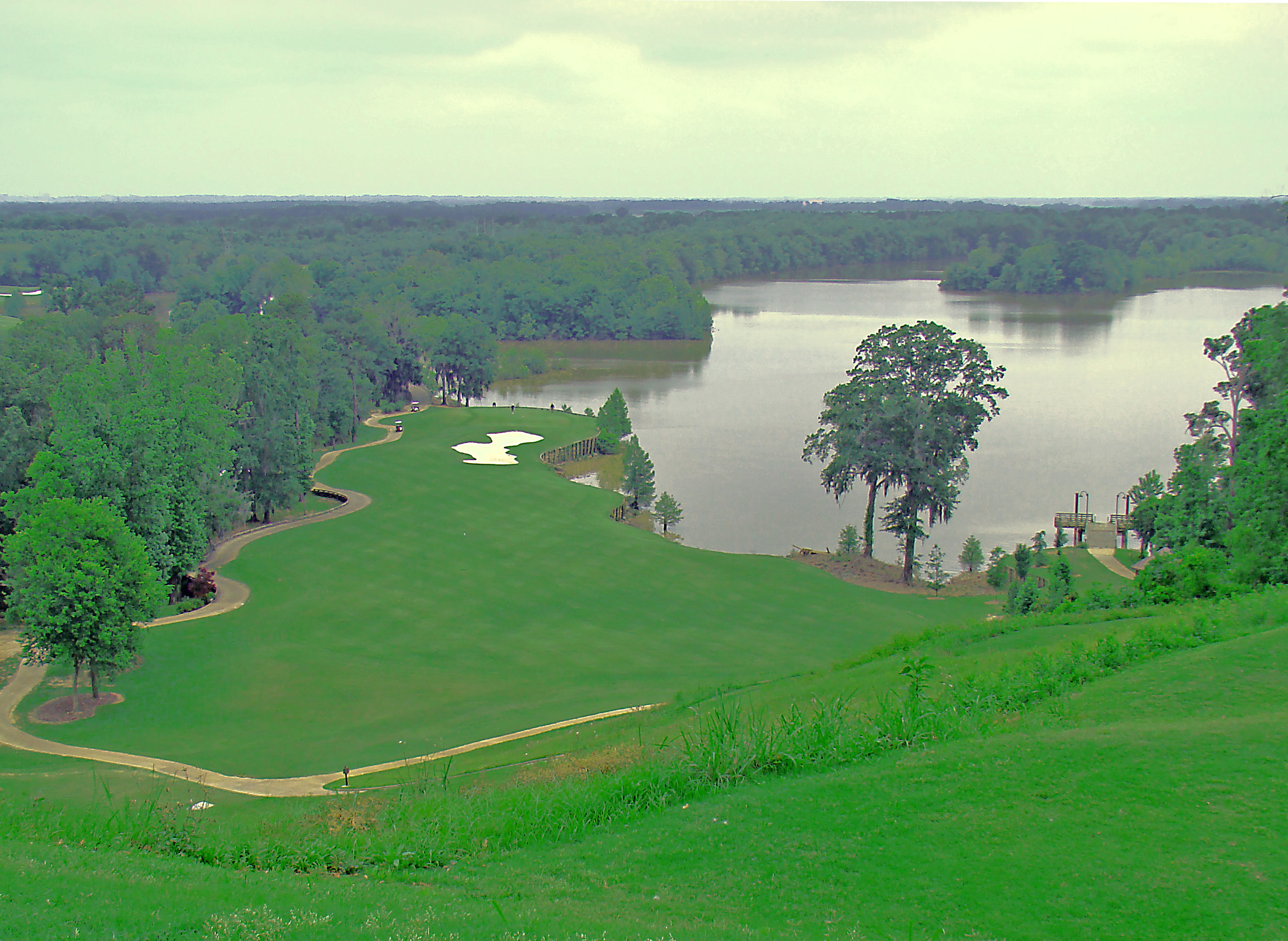 This is the Signature hole for the entire Robert Trent Jones Golf Trail in Alabama. The first hole on the Judge course at Capitol Hill golf club near Prattville, AL. The tee box is on the top of the hill to the right of where this photo is taken from. Cooter's Pond to the right is a slew off the Alabama River and a great bass fishing site.